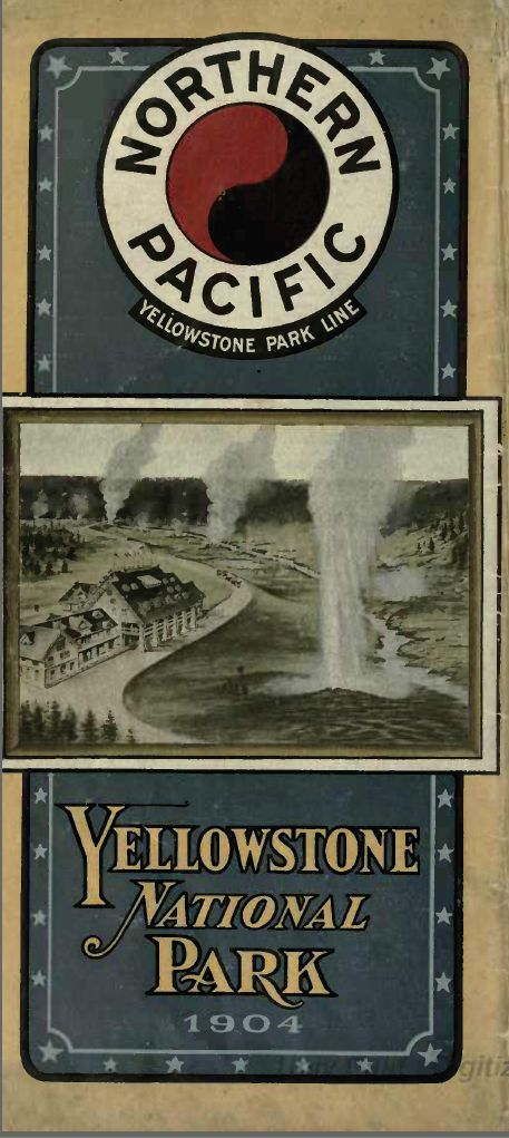 Northern Pacific Railway Yellowstone National Park Promotional Brochure (1904)